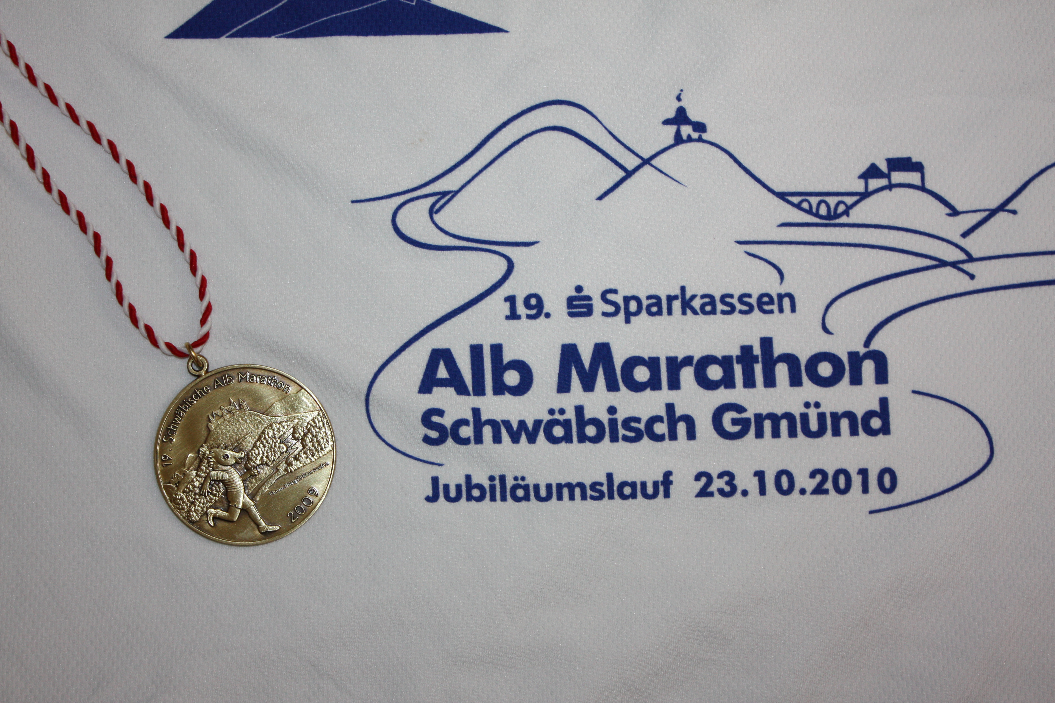 19. Albmarathon Schwäbisch Gmünd: Finisher Medal of the 25 km Rechberglauf and Running shirt